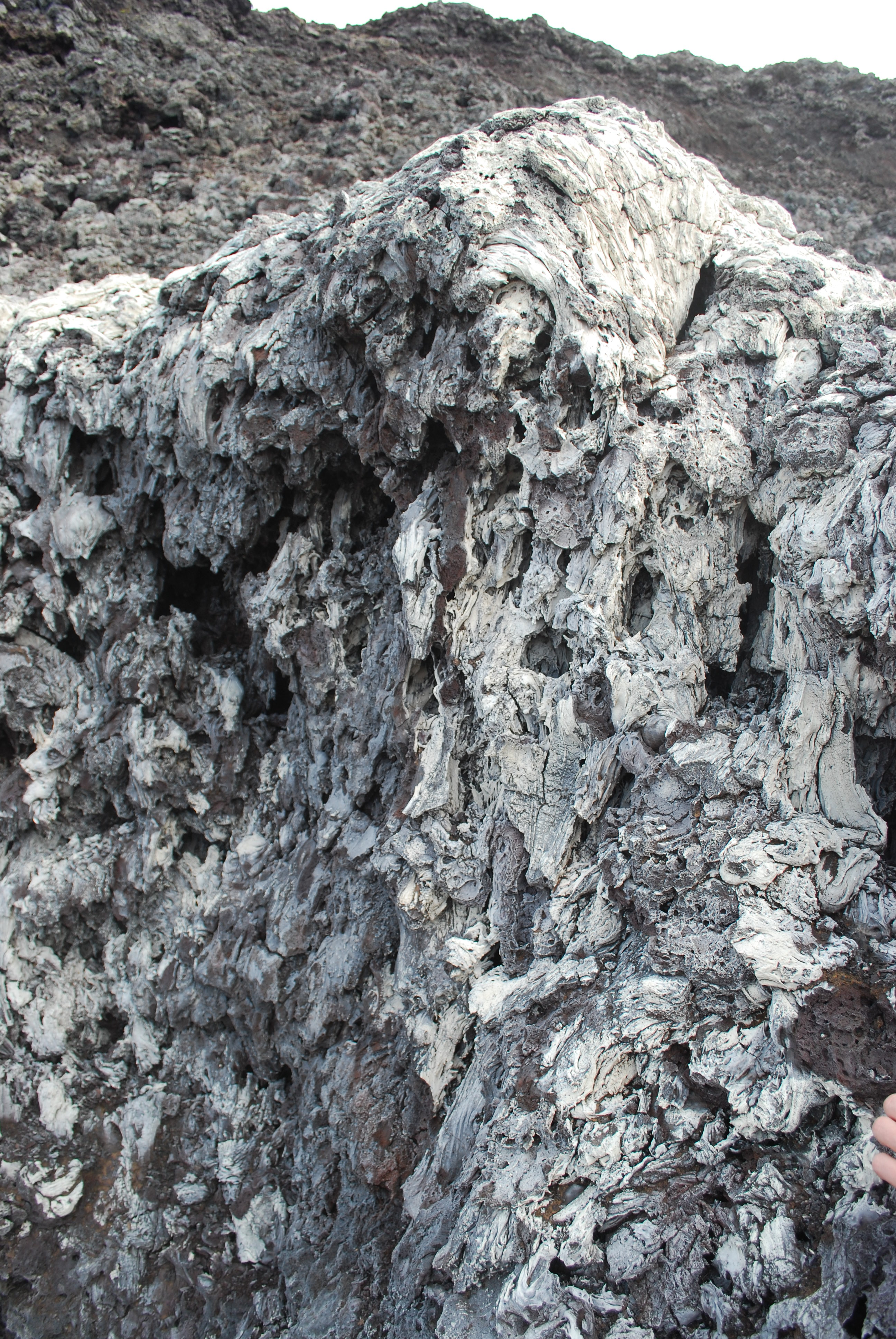 Spatter lava material forming small spatter cone in Leirhnjúkur area, Iceland